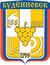 Budyonnovsk (Stavropol kray), coat of arms